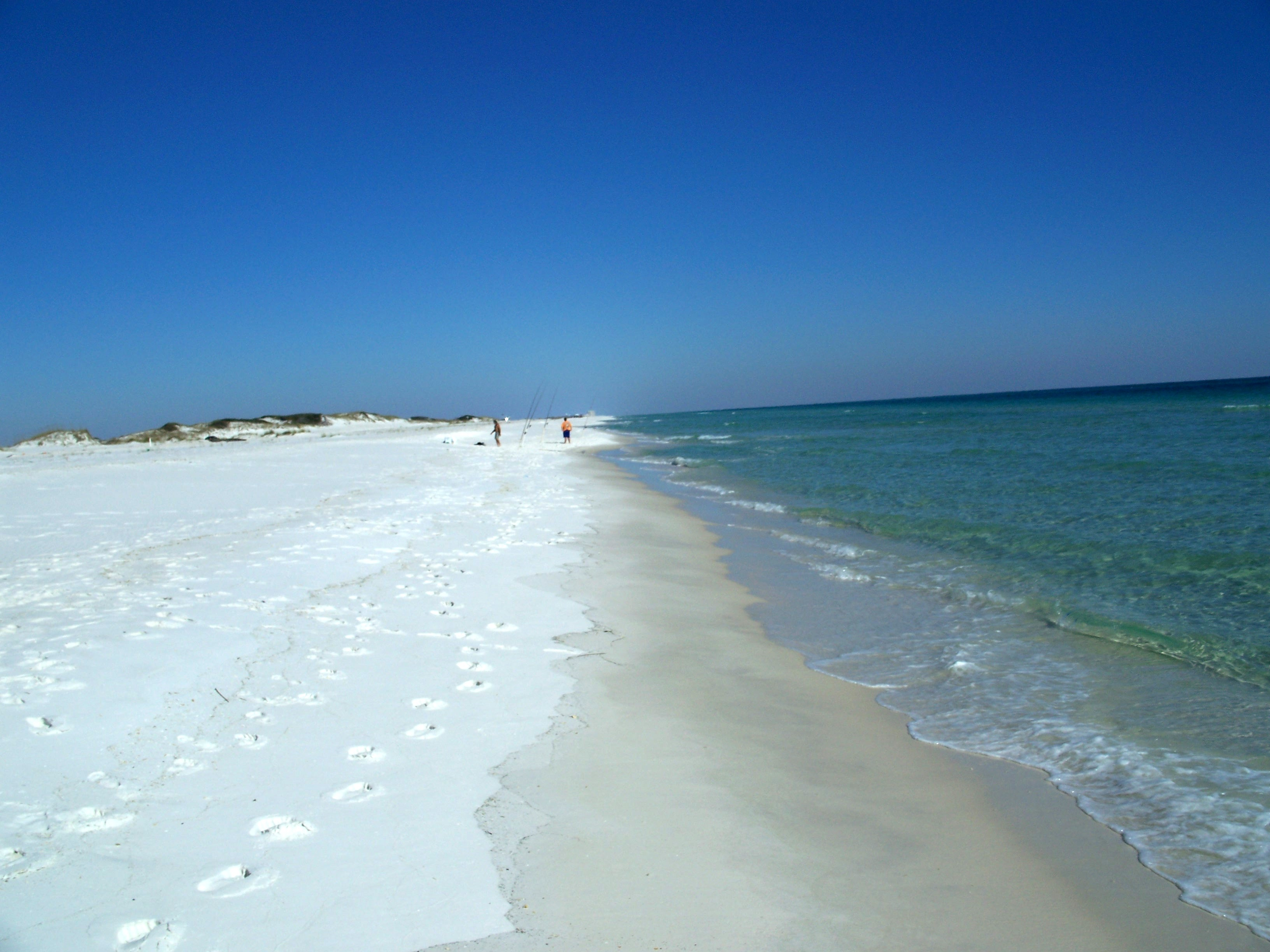 Gulf Islands National Seashore: Santa Rosa Area: Looking east along the beach by the Gulf of Mexico